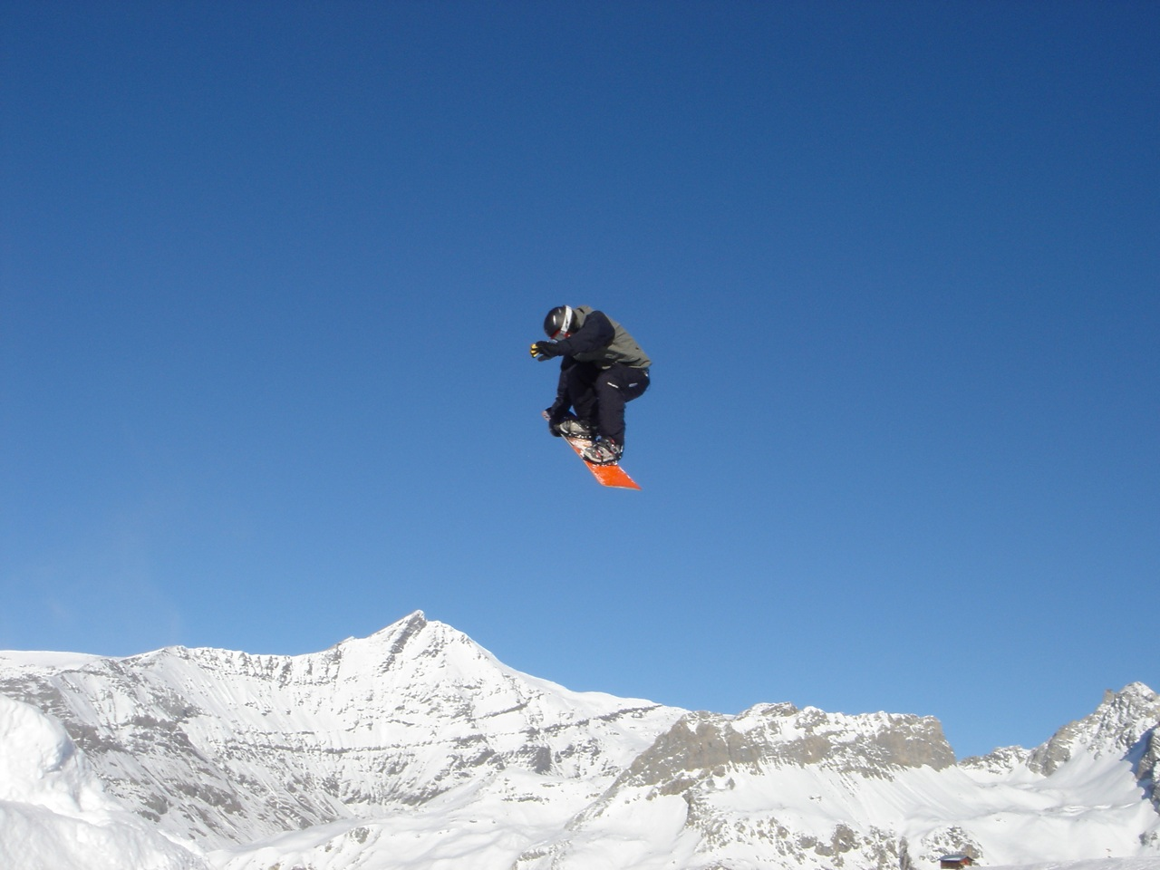 Getting fat air on a snowboard in Val d'Isere.DSC00110